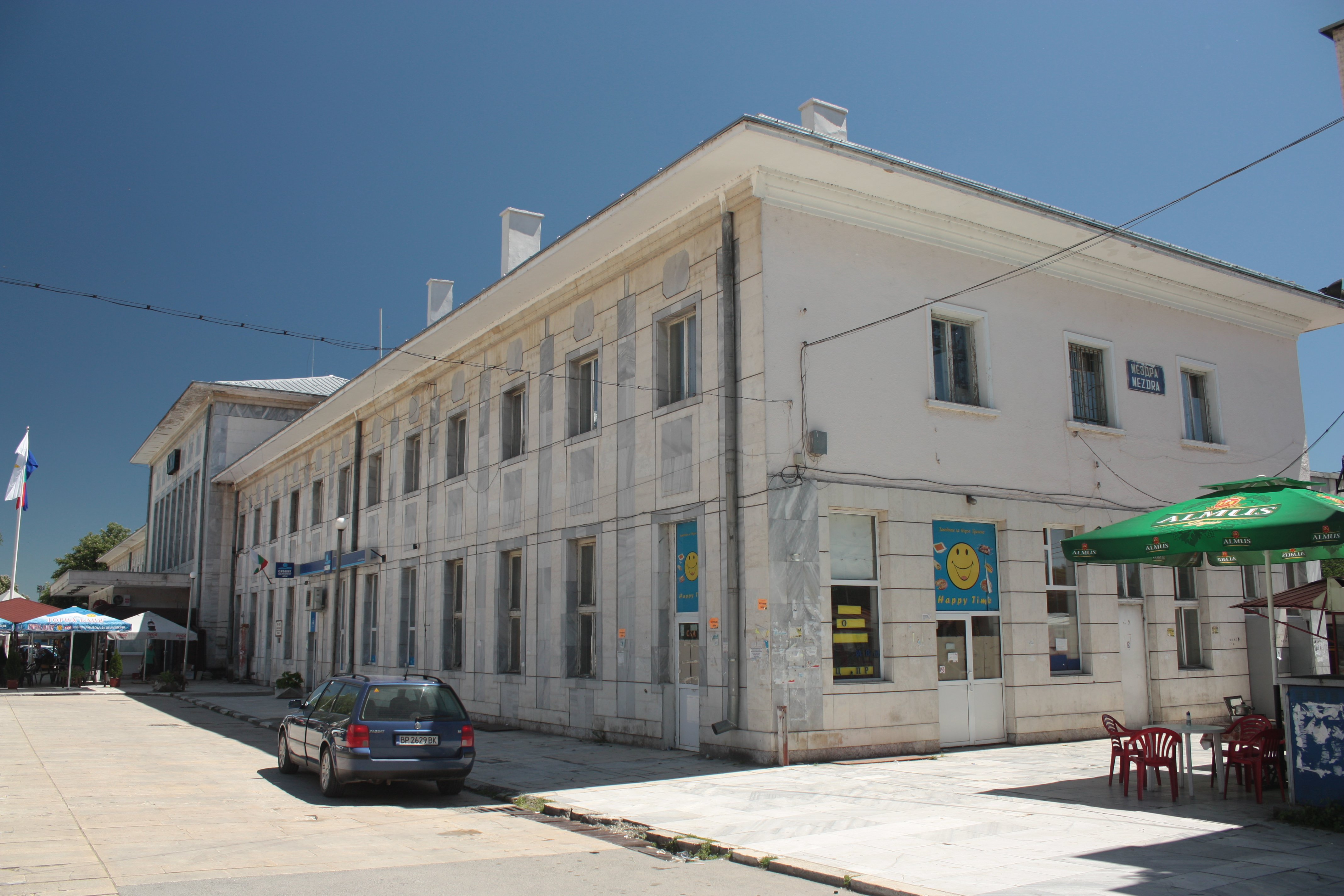 Mezdra railroad terminal